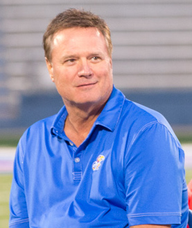 Bill Self of the Kansas Jayhawks men's basketball team speaks during the 2016 KU Traditions Night.